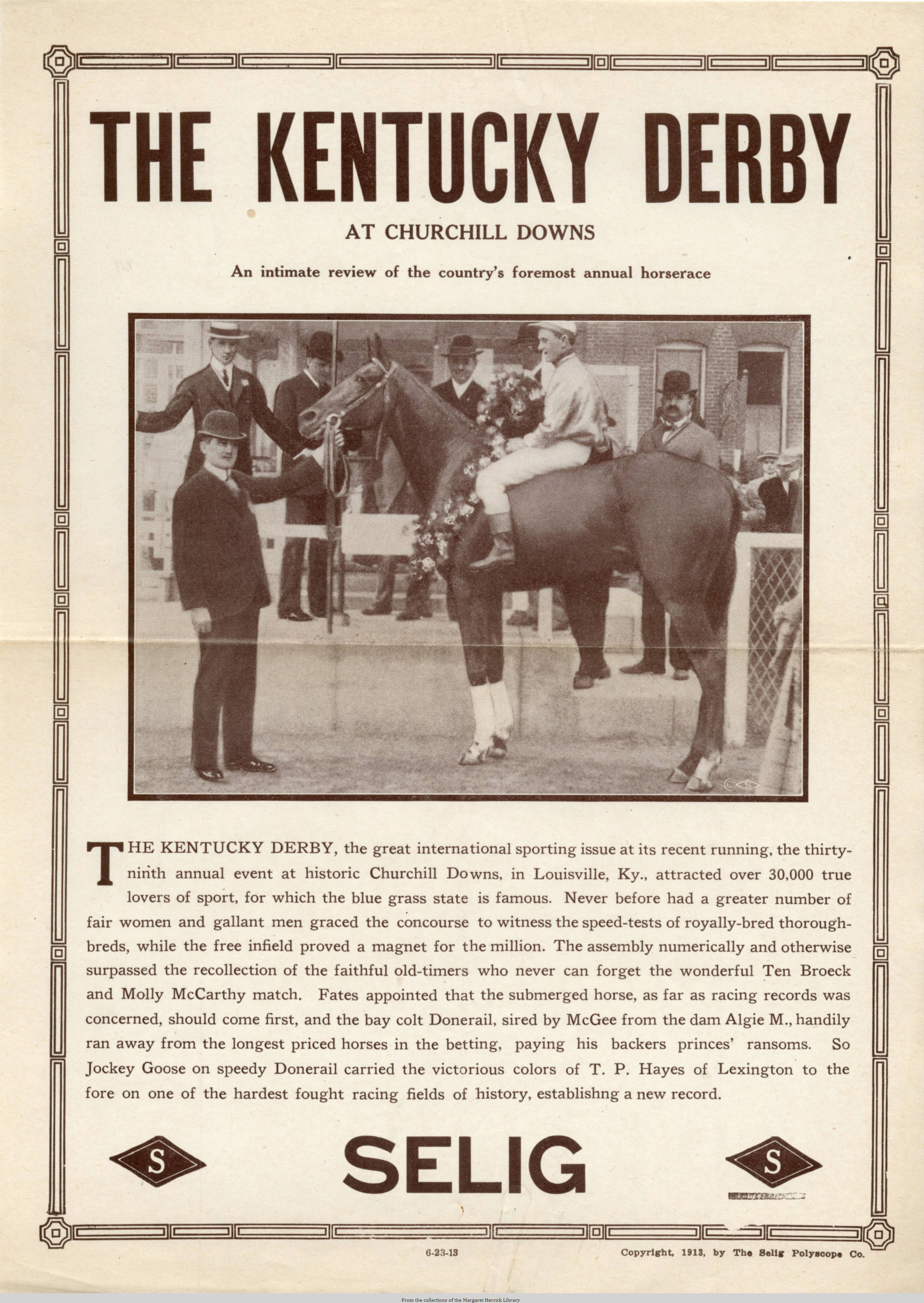 Release flier for THE KENTUCKY DERBY, 1913